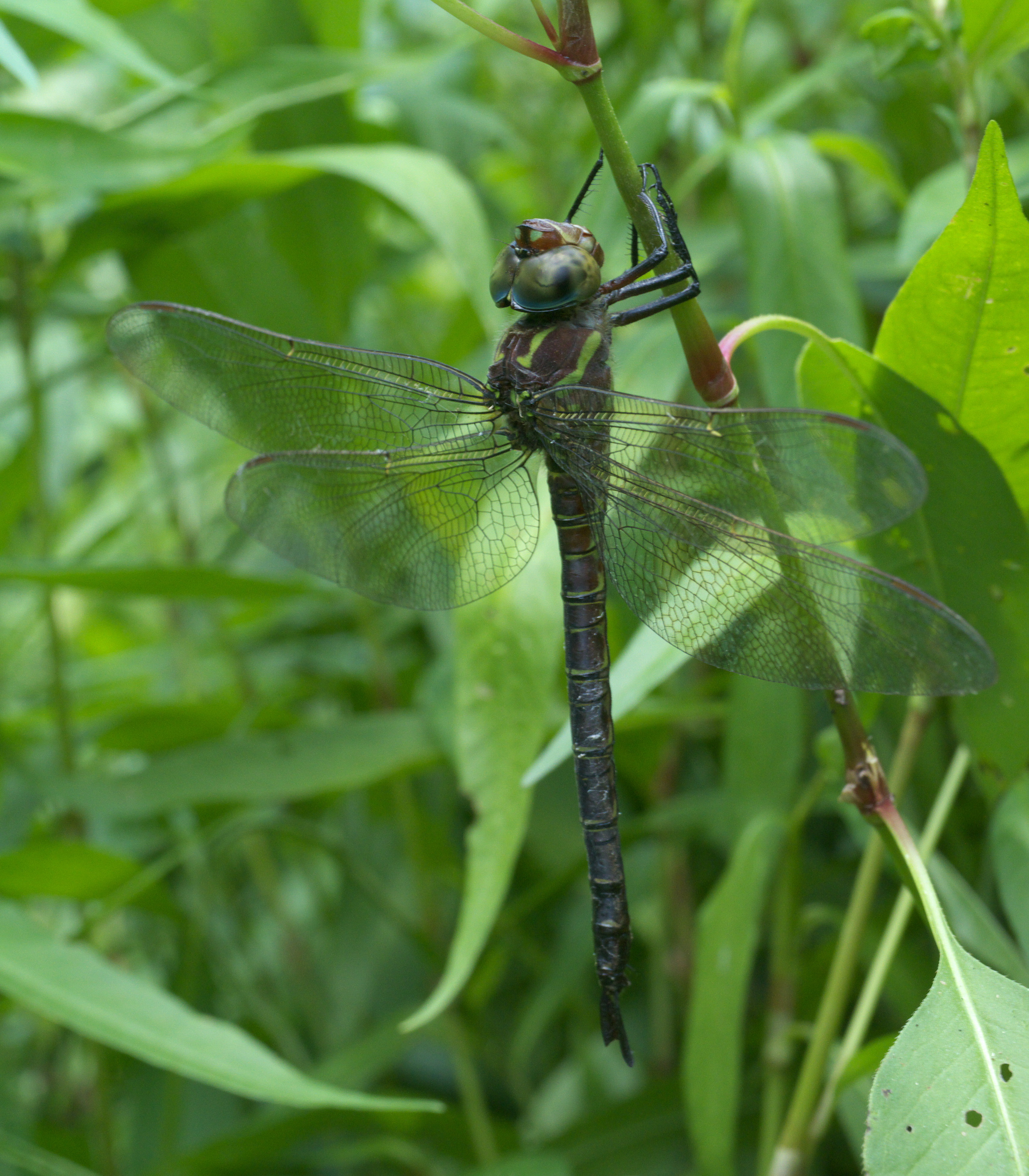 Epiaeschna heros, Swamp Darner, ID Confidence: 98